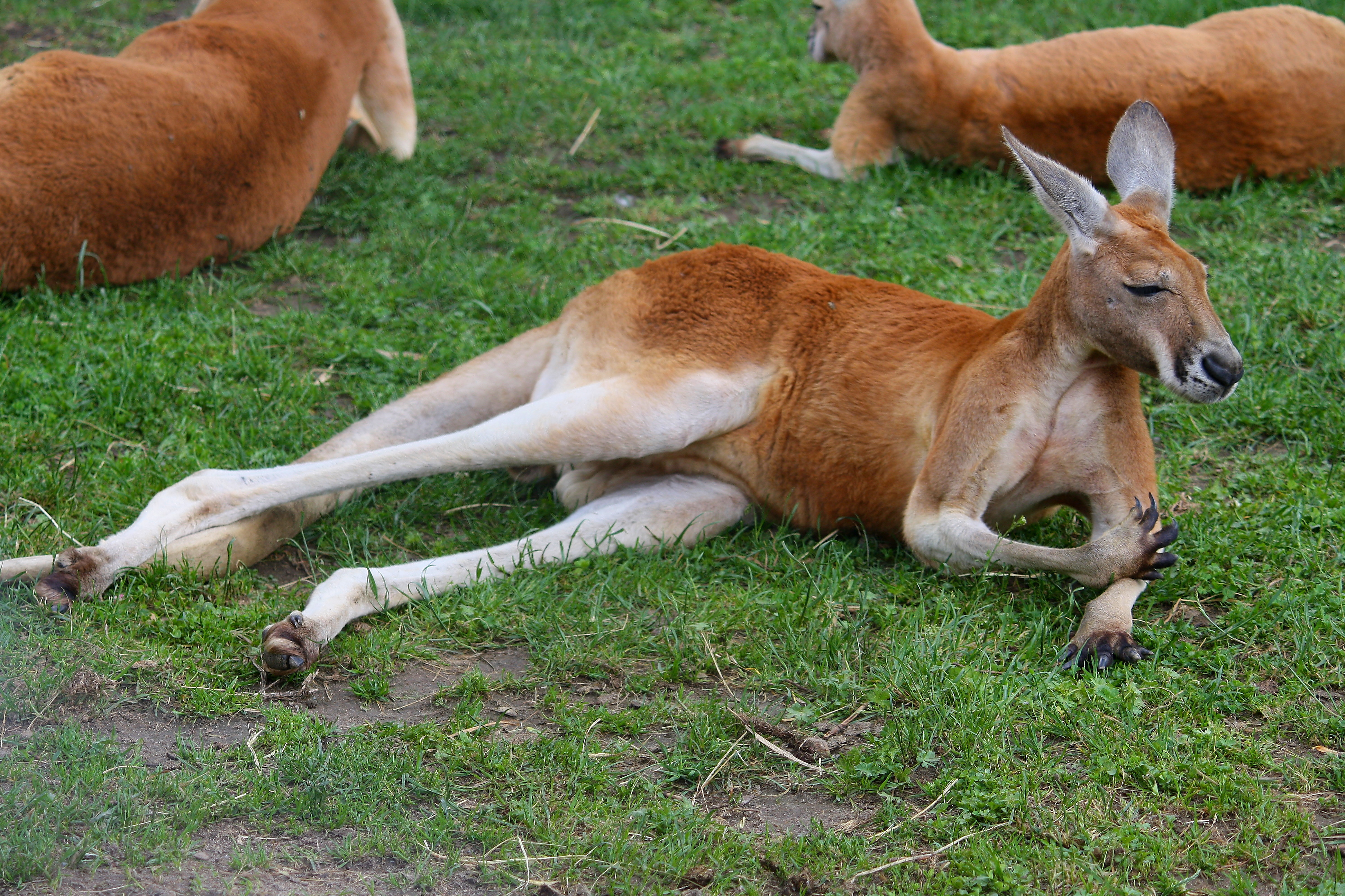 Red Kangaroo (Macropus rufus) in zoological garden in Plock.